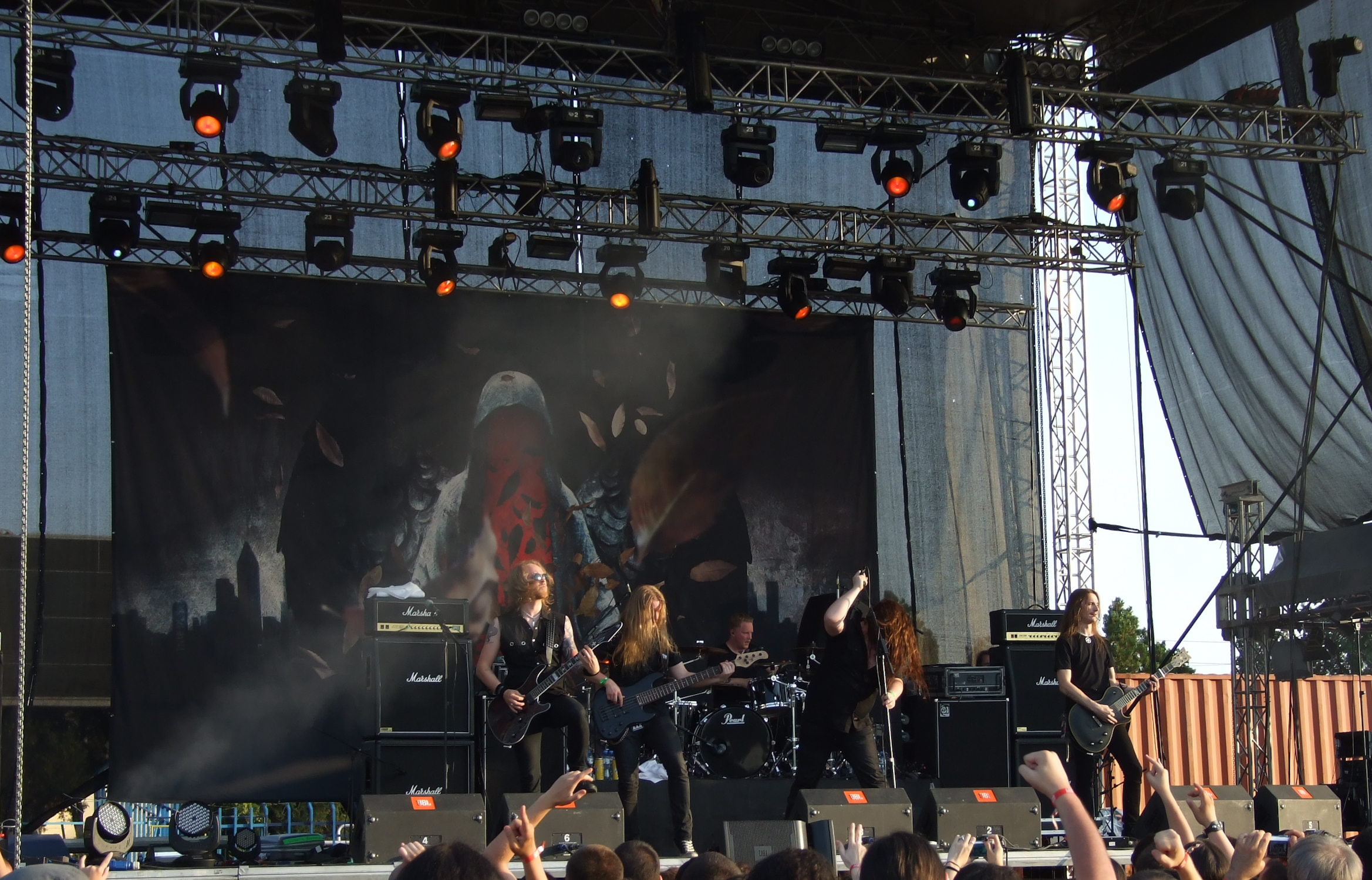 The Swedish metal band Katatonia at Kavarna Rock Fest 2011, Bulgaria.